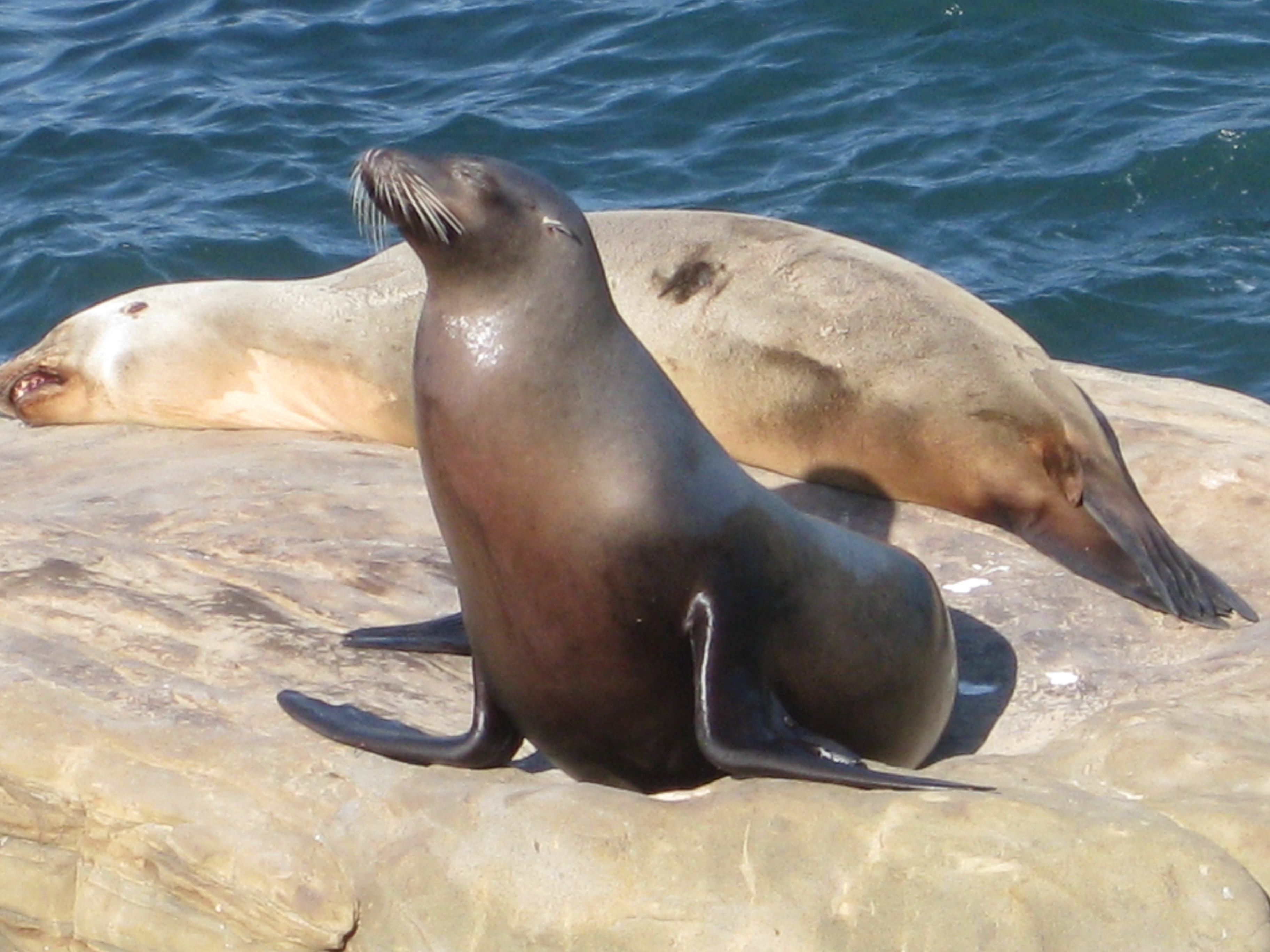 Young female sea lion